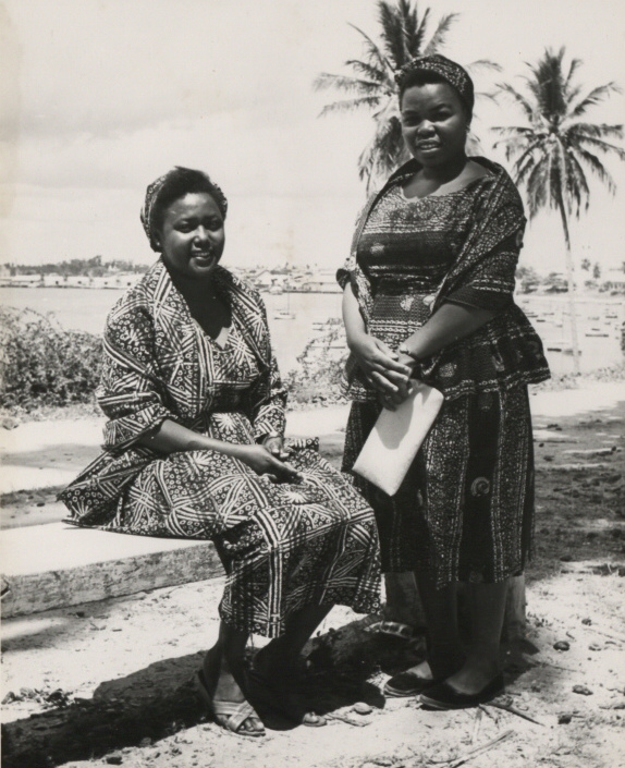 Description: Miss Lucy Lameck, M.L.C. (left), Organising Secretary of the Women's Section of the Tanganyika African National Union and Miss Victoria Kopney are seen wearing the proposed national dress for women designed by Miss Lameck. Location: Tanganyika Date: 1960s Our Catalogue Reference: Part of CO 1069/164 This image is part of the Colonial Office photographic collection held at The National Archives, uploaded as part of the Africa Through a Lens project. Feel free to share it within the spirit of the Commons. Our records about many of these images are limited. If you have more information about the people, places or events shown in an image, please use the comments section below. We have attempted to provide place information for the images automatically but our software may not have found the correct location. Alternatively you could use the Suggestify tool to suggest the location of a picture. For high quality reproductions of any item from our collection please contact our image library